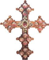 Santa Cruz del Voto